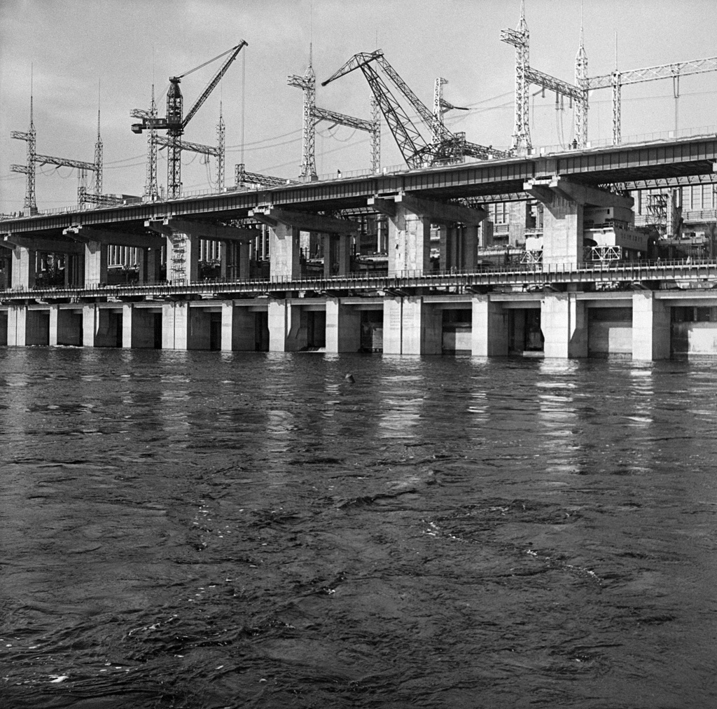 “Building 22nd CPSU Congress Volzhskaya GES”. Building the 22nd CPSU Congress Volzhskaya Hydroelectric Power Station (now the Volzhskaya GES).